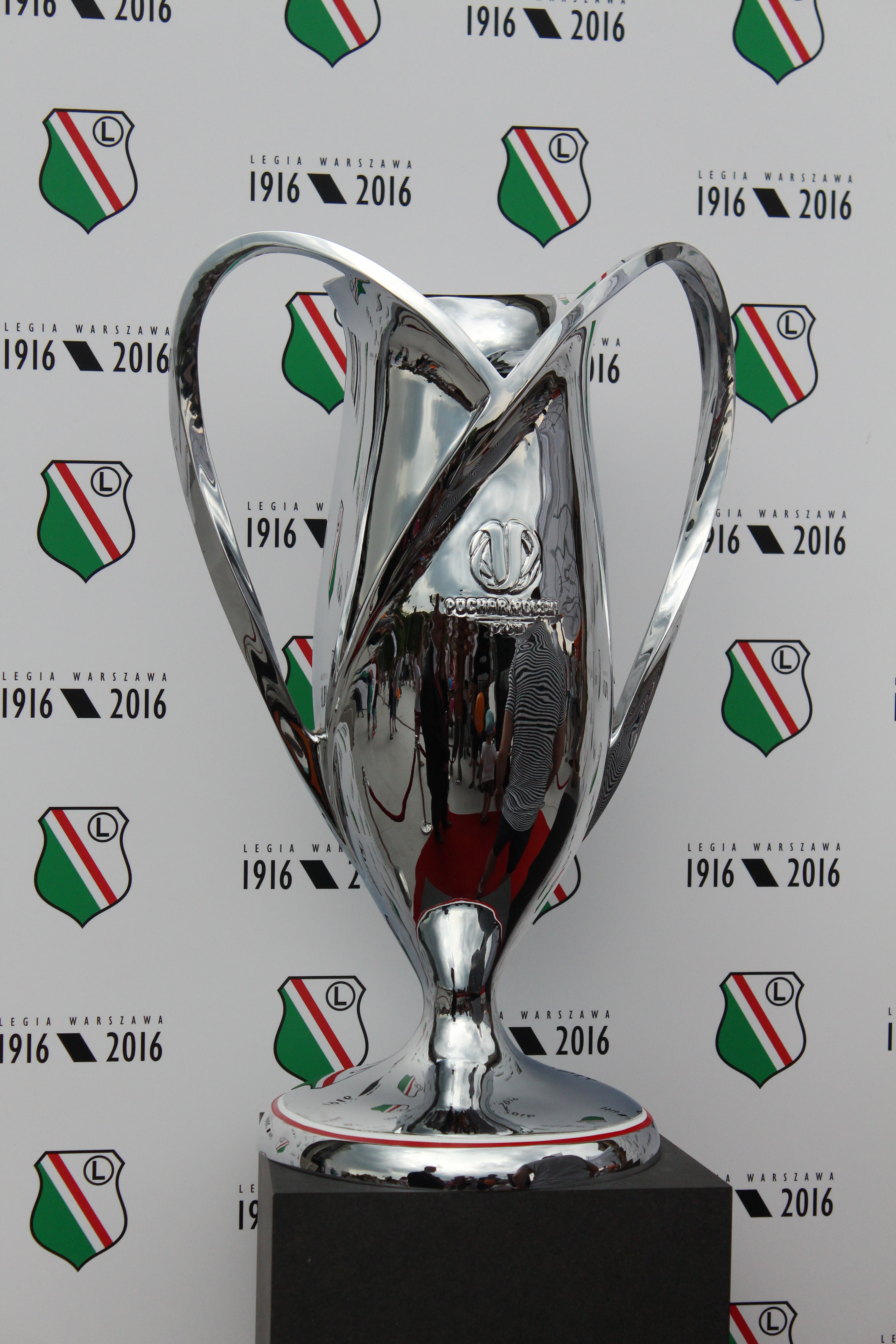 Legia Warsaw cup. This image has been originally created as the illustration for at . It has been released under CC-BY-3.0 license.